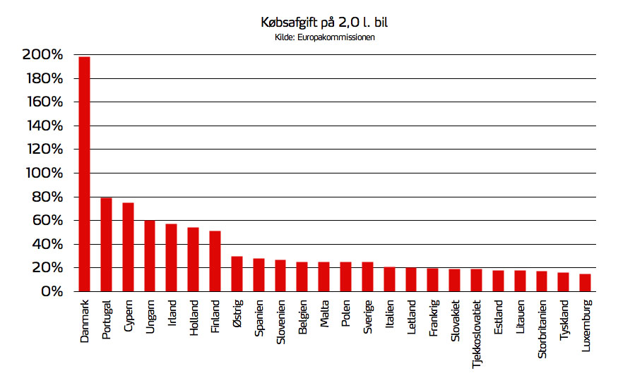 Vehicle registration tax in Europe compared